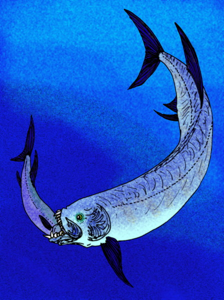 User:Apokryltaros reconstruction of the Cretaceous Ichthyodectid Xiphactinus audax eating a smaller ichthyodectid, Gillicus arcuatus. (Original text: Reconstructions of the ichthyodectids Xiphactinus audax, Ichthyodectes ctenodon, and Gillicus arcuatus of the Late Cretaceous Western Interior Seaway.)